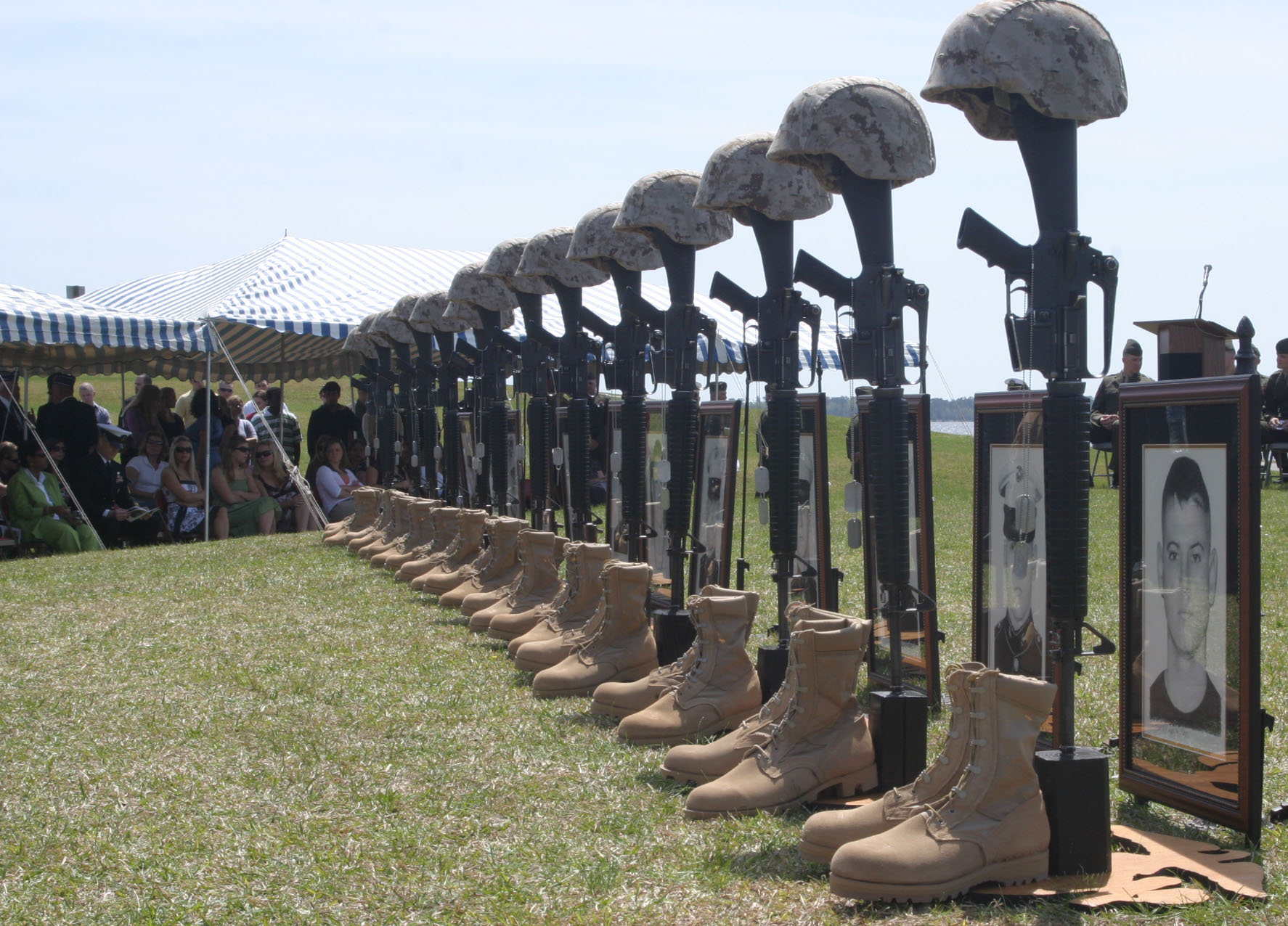 MARINE CORPS BASE CAMP LEJEUNE, N.C.- Fourteen statues of helmets, rifles, dog tags, boots and photographs stand in front of Marines, families and friends of 3rd Battalion, 2nd Marine Regiment, 2nd Marine Division, as they honor their fallen at a memorial ceremony here, March 31. These Marines made the ultimate sacrifice while honorably serving their country in support of Operation Iraqi Freedom in the Al Anbar province of Iraq. (Official U.S. Marine Corps photo by Cpl. Lucian Friel (RELEASED)